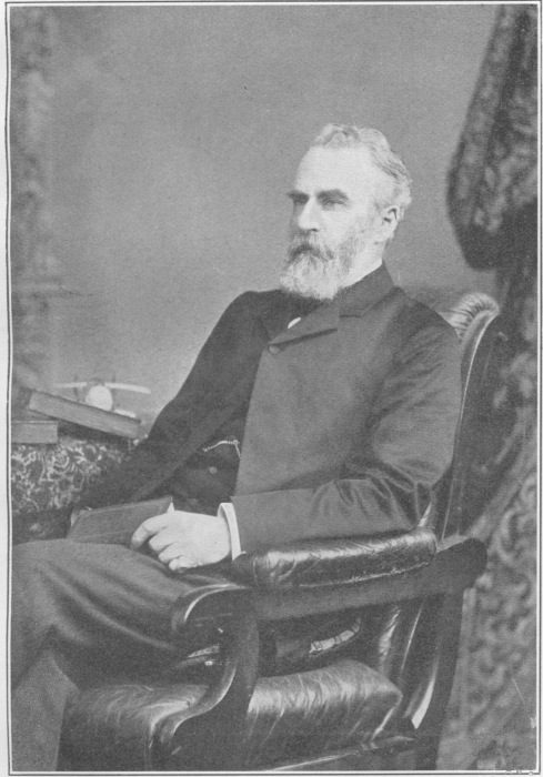 John Inglis (1820-1894), Civil servant in India and joint founder, with his daughter Elsie Inglis, of the Scottish Association for the Medical Education of Women